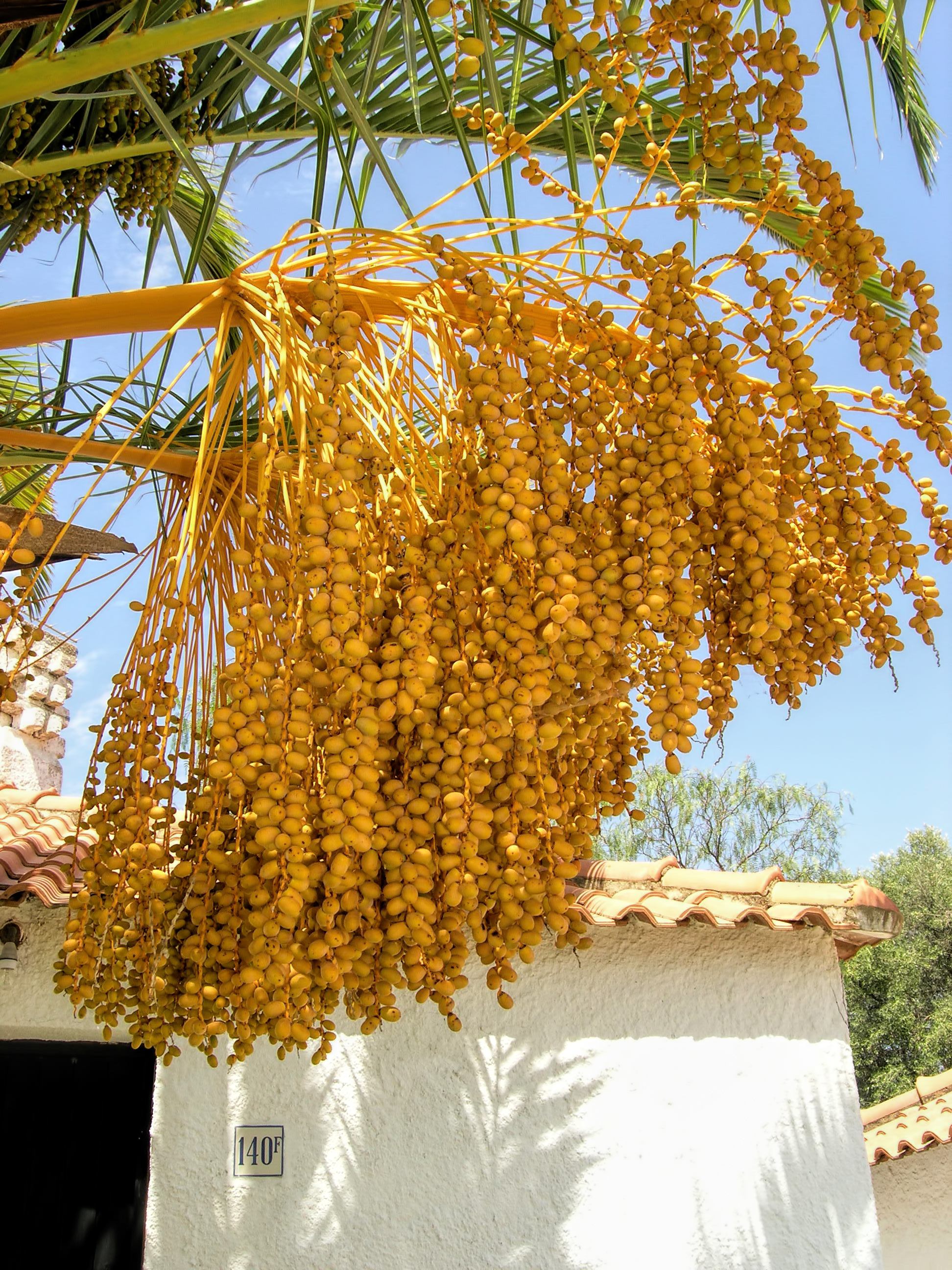 Date fruit 2005-07-17 Algarve